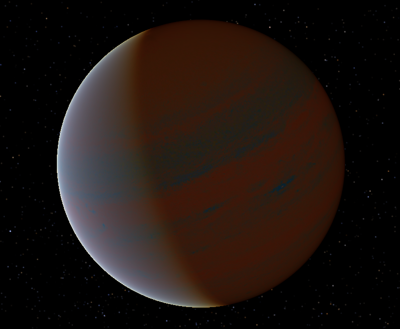 HD 33283 b, eccentric hot jupiter.